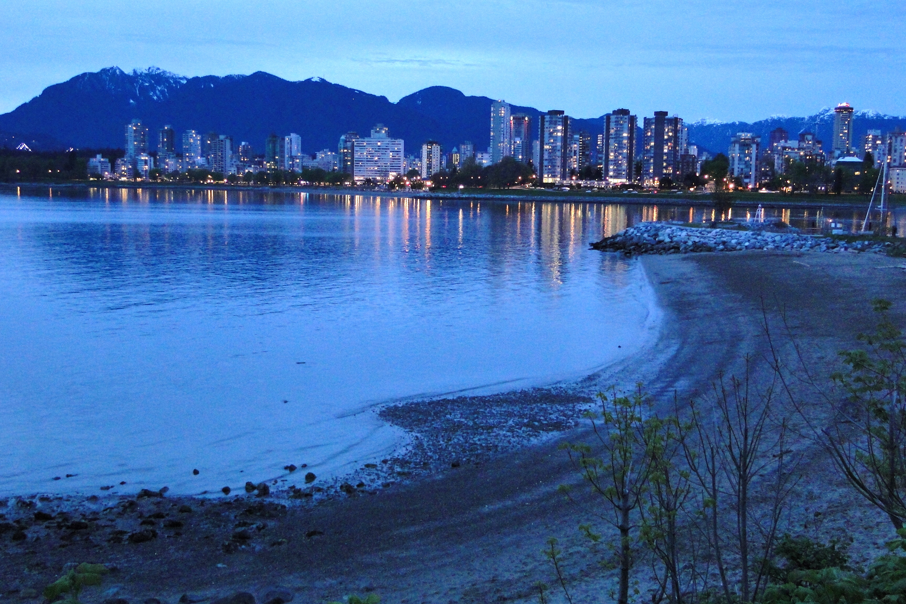 Dusk View of Downtown and West End from Kitsilano Beach - Vancouver BC - Canada